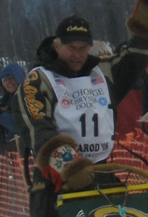 Jeff King at the 2008 restart of the Iditarod